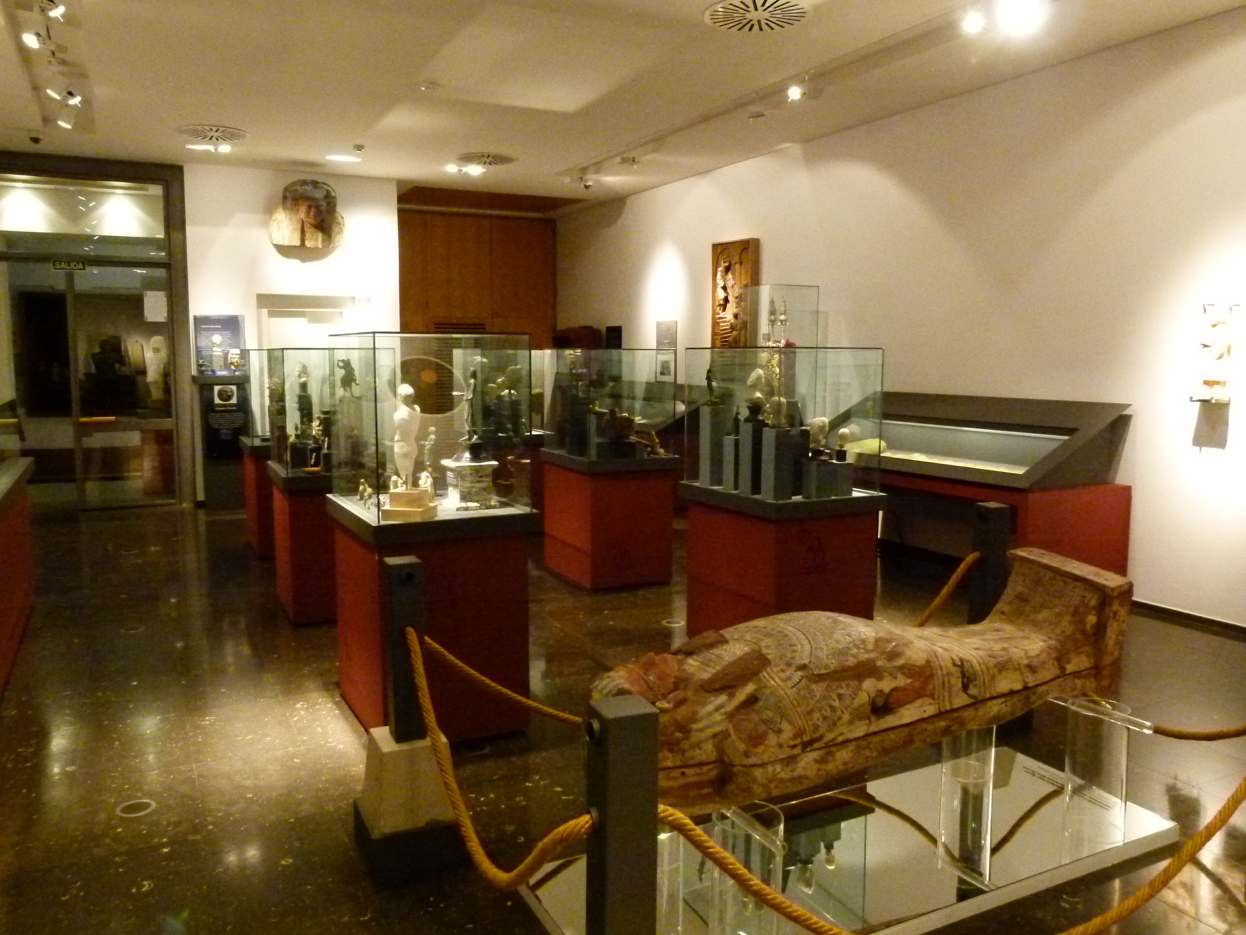 Vista general de la sala principal del Museo Bíblico y Oriental.